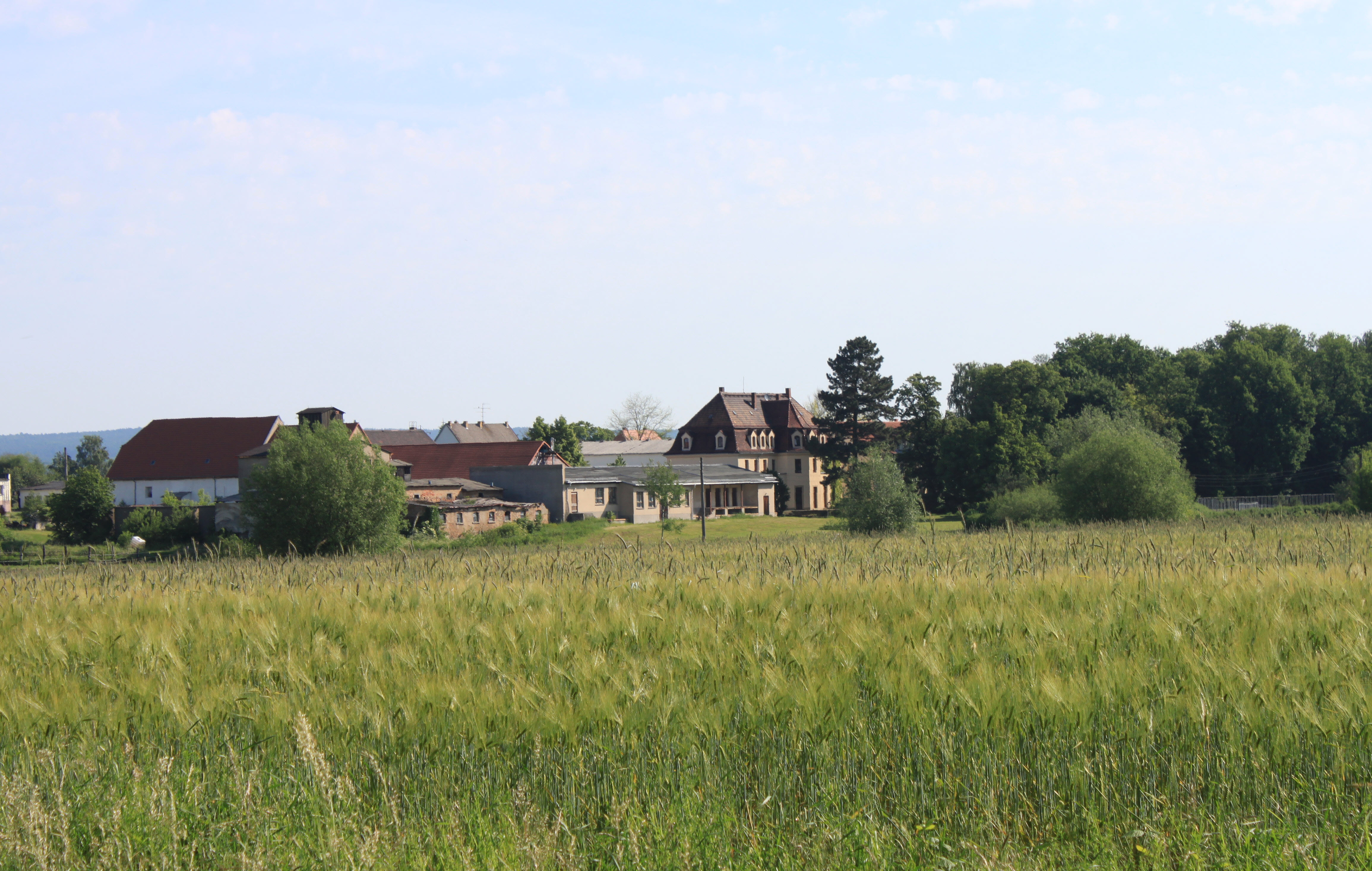 Stroga viw from the B101